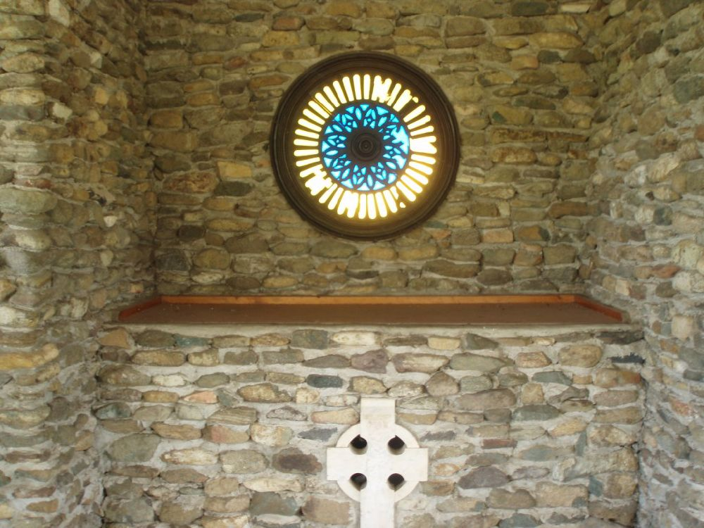 St Christophers Chapel (2009) - recessed altar with rose window